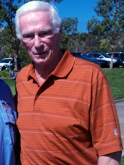 I personally took this photo of NASA astronaut Gene Cernan in San Diego.